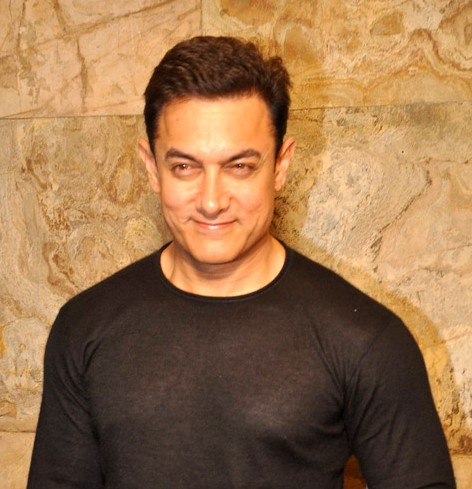 Aamir Khan watches his film PK